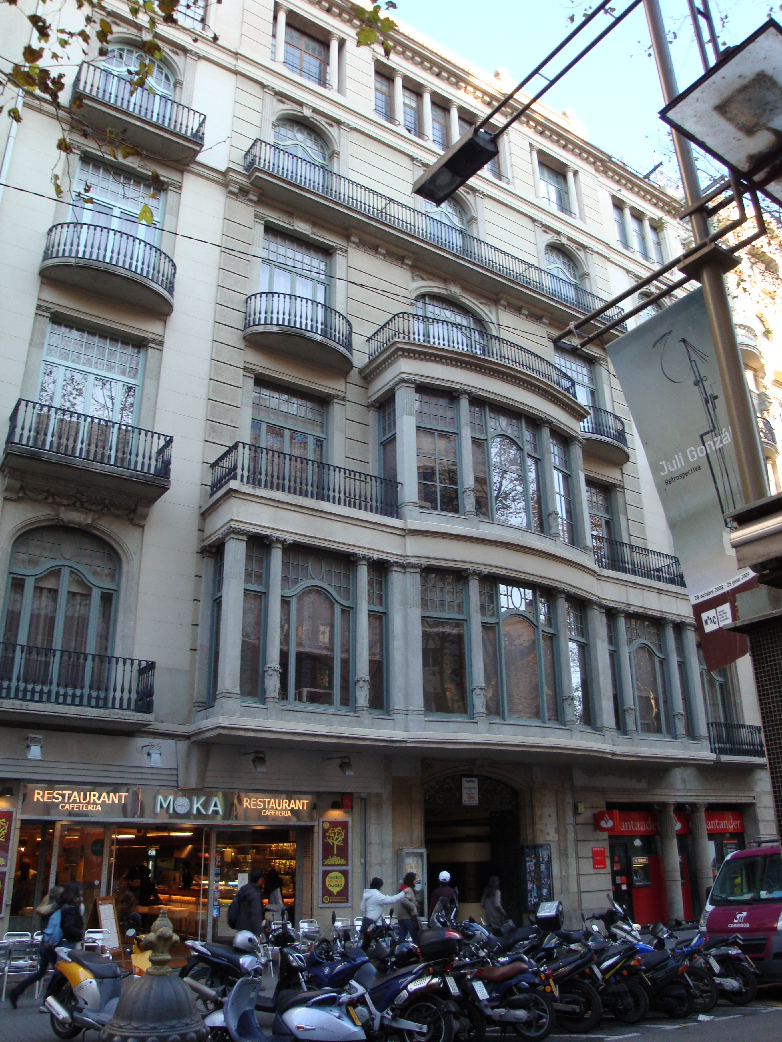 Cafe Moka, Barcelona, showing the adjacent former building of the POUM political party. The building features prominently in George Orwell's Homage to Catalonia.